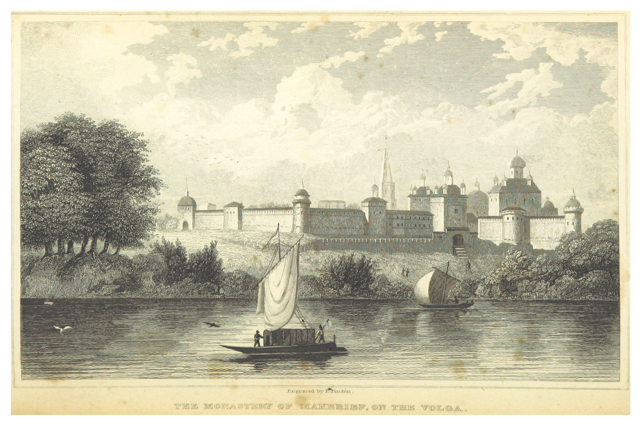 Makaryev Monastery. It is located near the village of Makaryevo on the Volga River in Nizhny Novgorod Oblast.